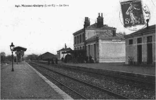 gare de Messac - Guipry